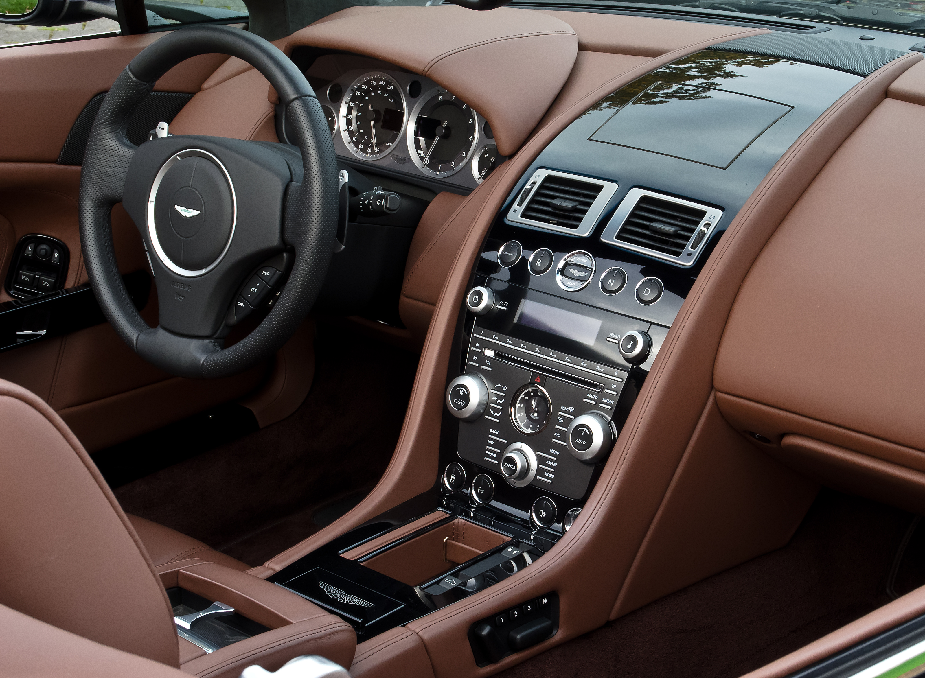 Aston Martin V8 Vantage Roadster (Facelift)